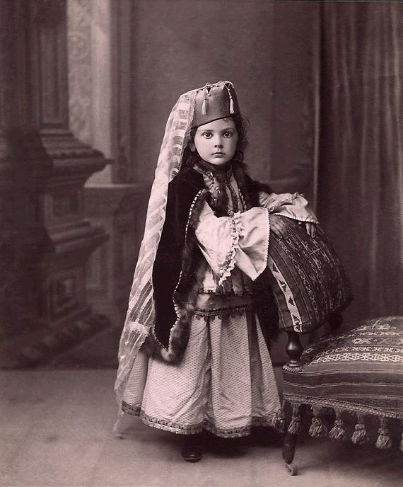 D. Ermakov. Princess Lazarev in Tatar costume